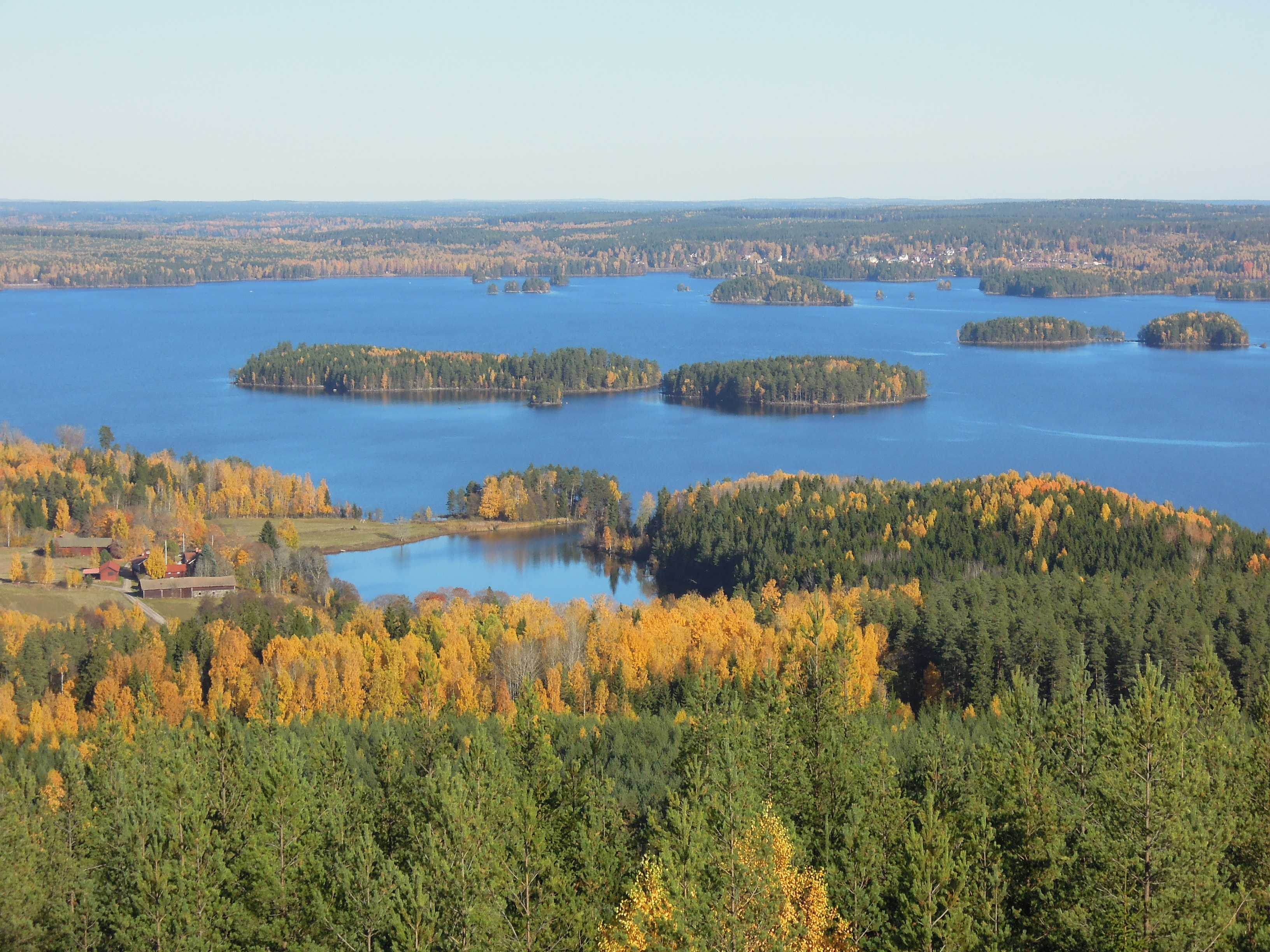 The lake Åmänningen and Ängelsberg, Fagersta, Sweden